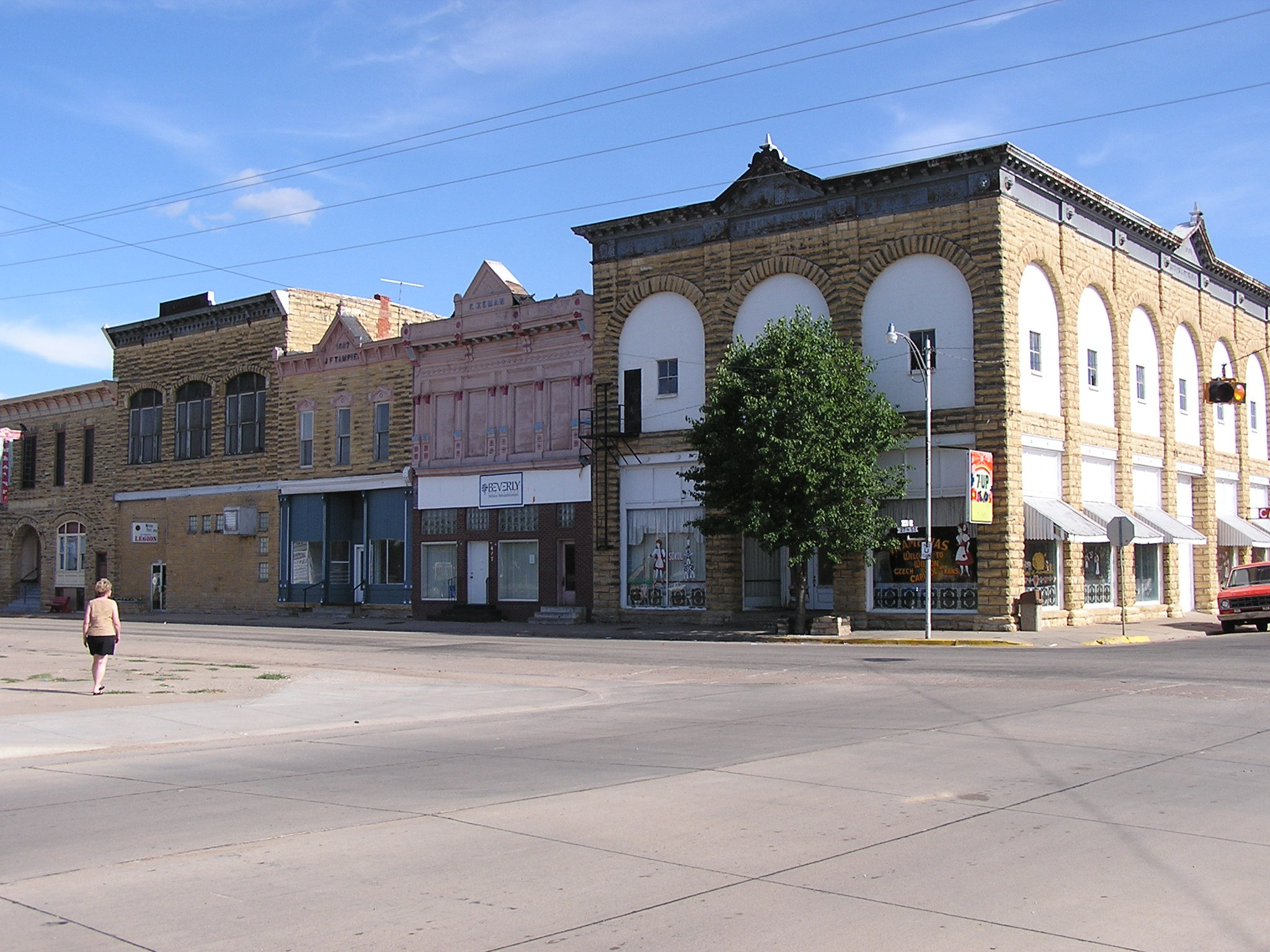 Wilson KS near railroad tracks